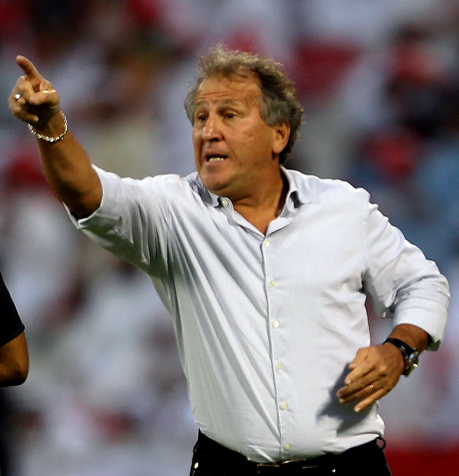 Legendary Brazilian player Zico, who is also Iraq's coach, during his team's 2014 FIFA World Cup qualifier against Oman in Doha. Picture by Mohan